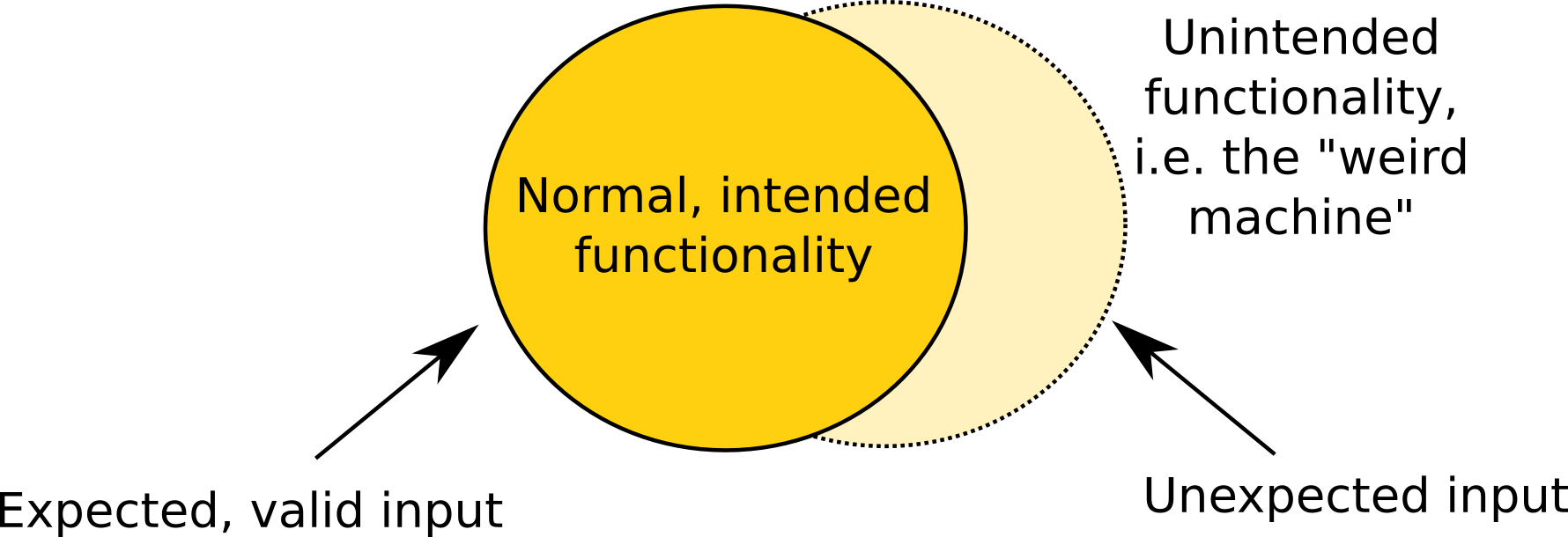 This image illustrates the concept of a 'weird machine'. The functionality of the weird machine is invoked through unexpected inputs.